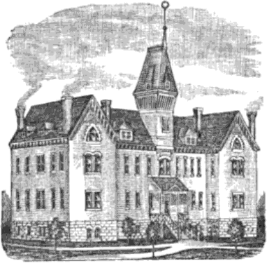 This is a Illustration of the "Salina Normal University".